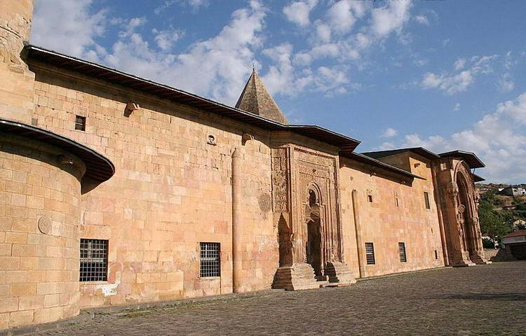 Great Mosque and Hospital, Divriği, Sivas, Turkey